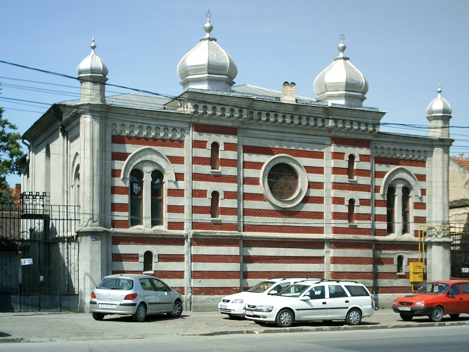 Iosefin Synagogue in Timişoara, Romania